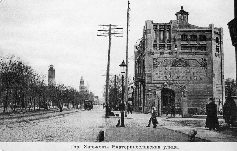 Vintage postcard of St. Demetrius Church in Kharkov and Fire Kalancha in Ekaterinoslavskaya Street. Russian Empire Postcard